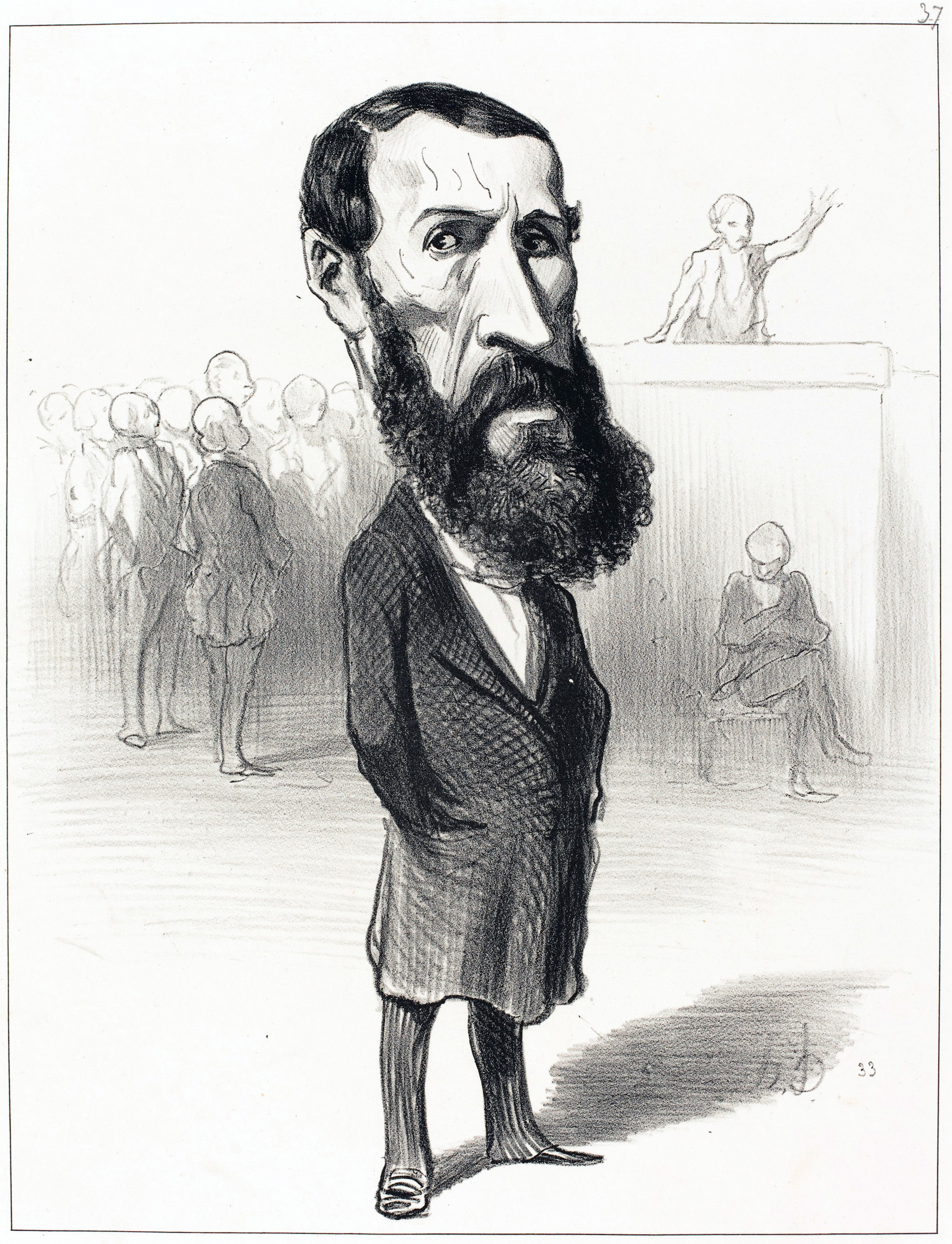 Caricature of Jean-Louis Greppo. National Gallery of Art, Rosenwald Collection, 1943.3.3144